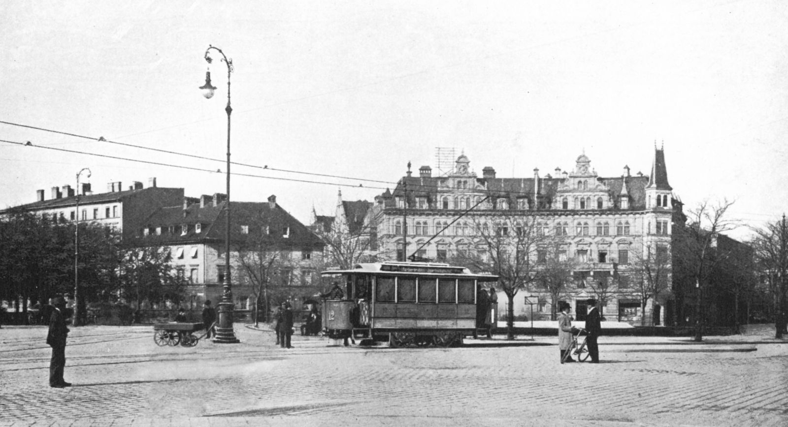 Tramway Munich 1898